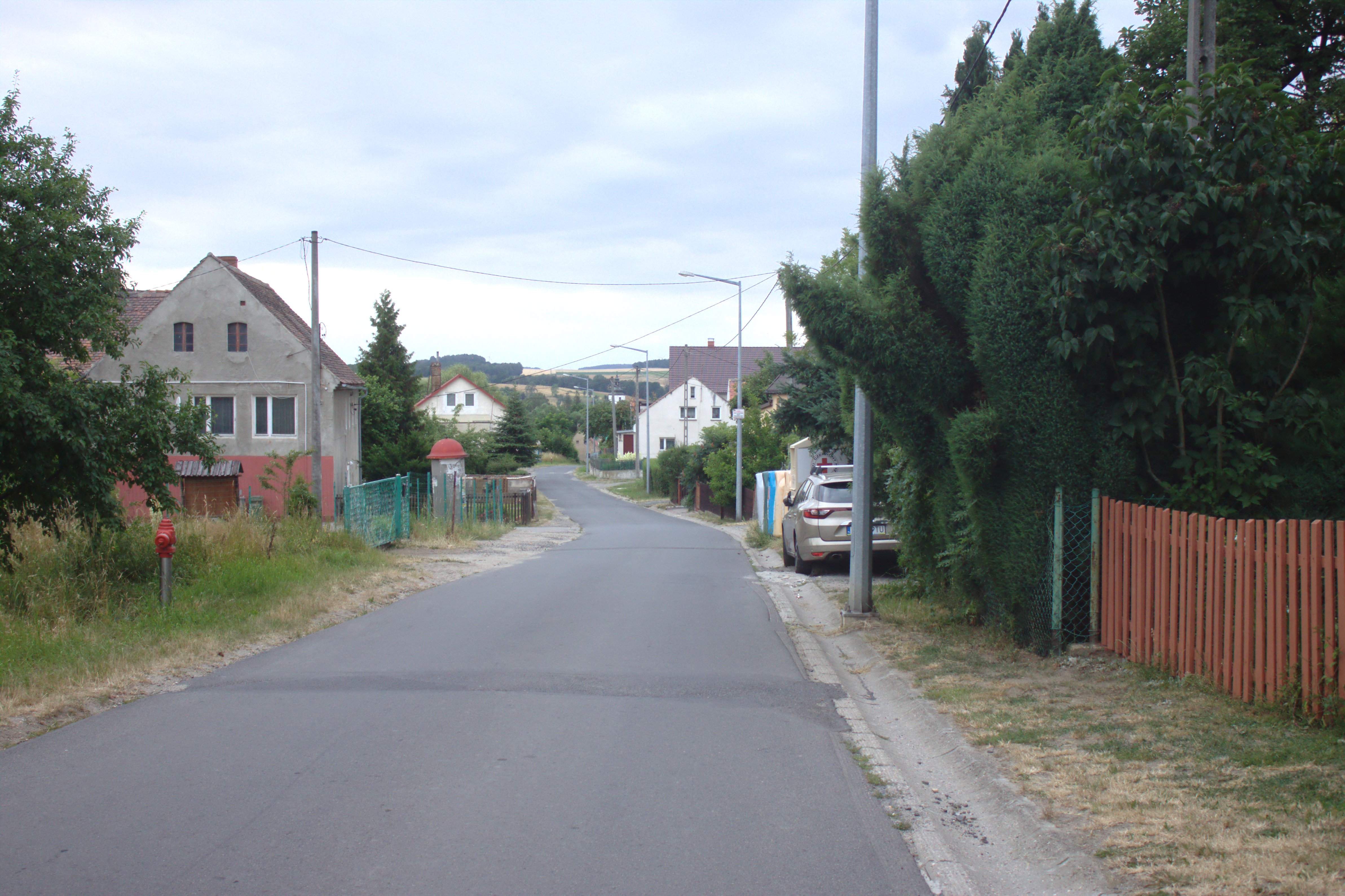 This photograph was created as a part of Wikiexpedition Lower Silesia, a project supported by Wikimedia Poland grant.